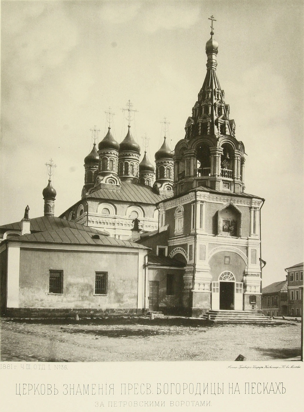 Church of Theotokos Orans in Peski (2nd Kolobovsky Lane), Moscow.